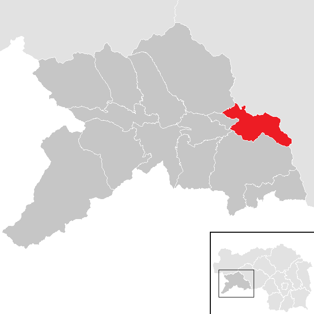 district Murau